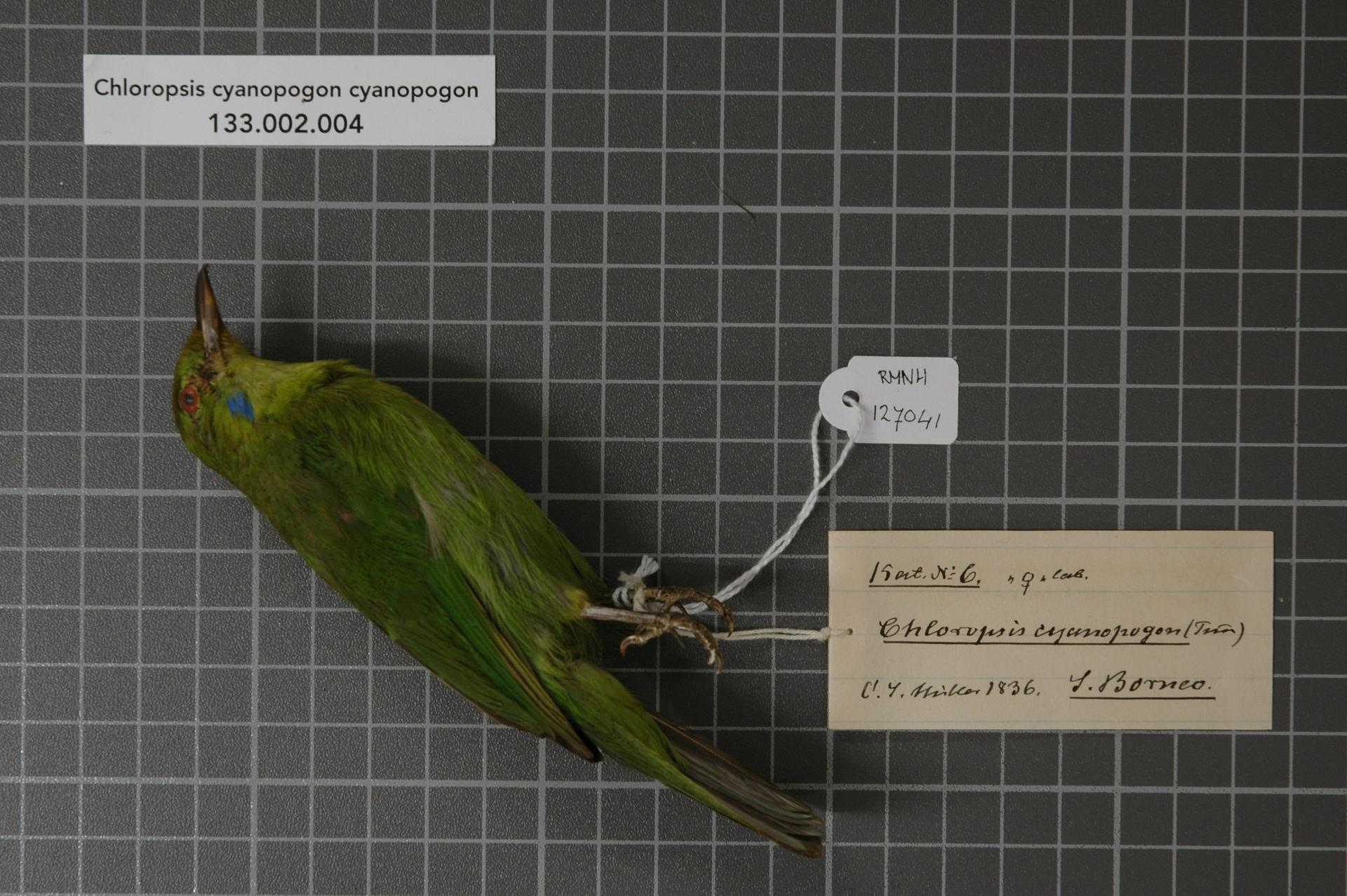 Chloropsis cyanopogon cyanopogon (Temminck, 1829)